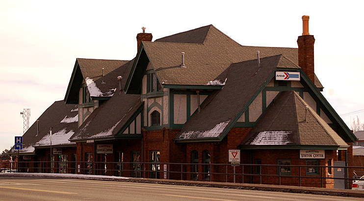 The Amtrak station in Flagstaff, Arizona. The historic 1926 Tudor Revival style building is a former Atchison, Topeka and Santa Fe Railway station. Credits Photo by Derek Cashman, taken December 23, en:2006.